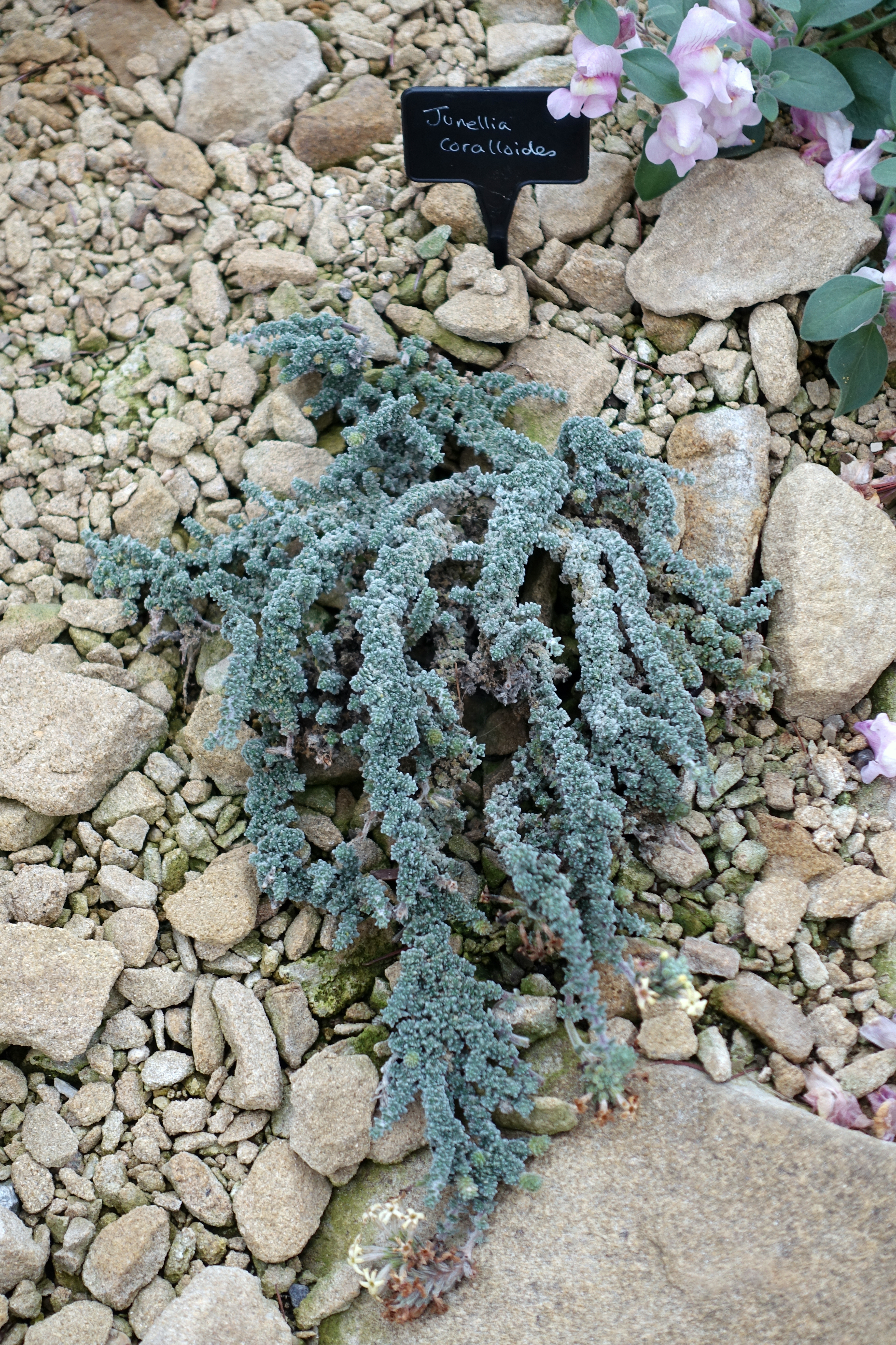 Horticultural specimen in RHS Garden Harlow Carr - North Yorkshire, England.